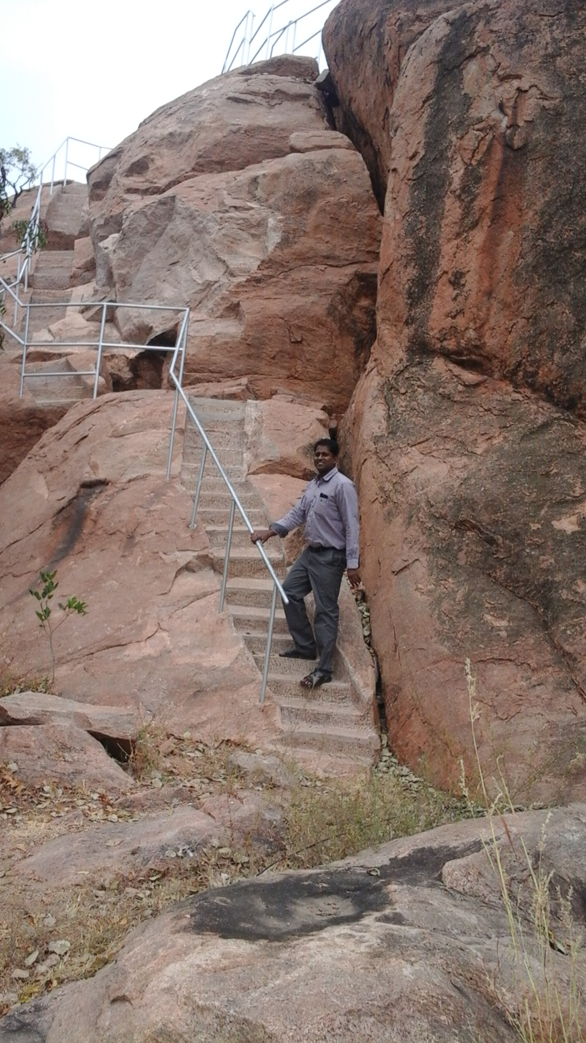 Nagamalai-puthukkottai-Pillar-rock-Madurai-TamilNadu.